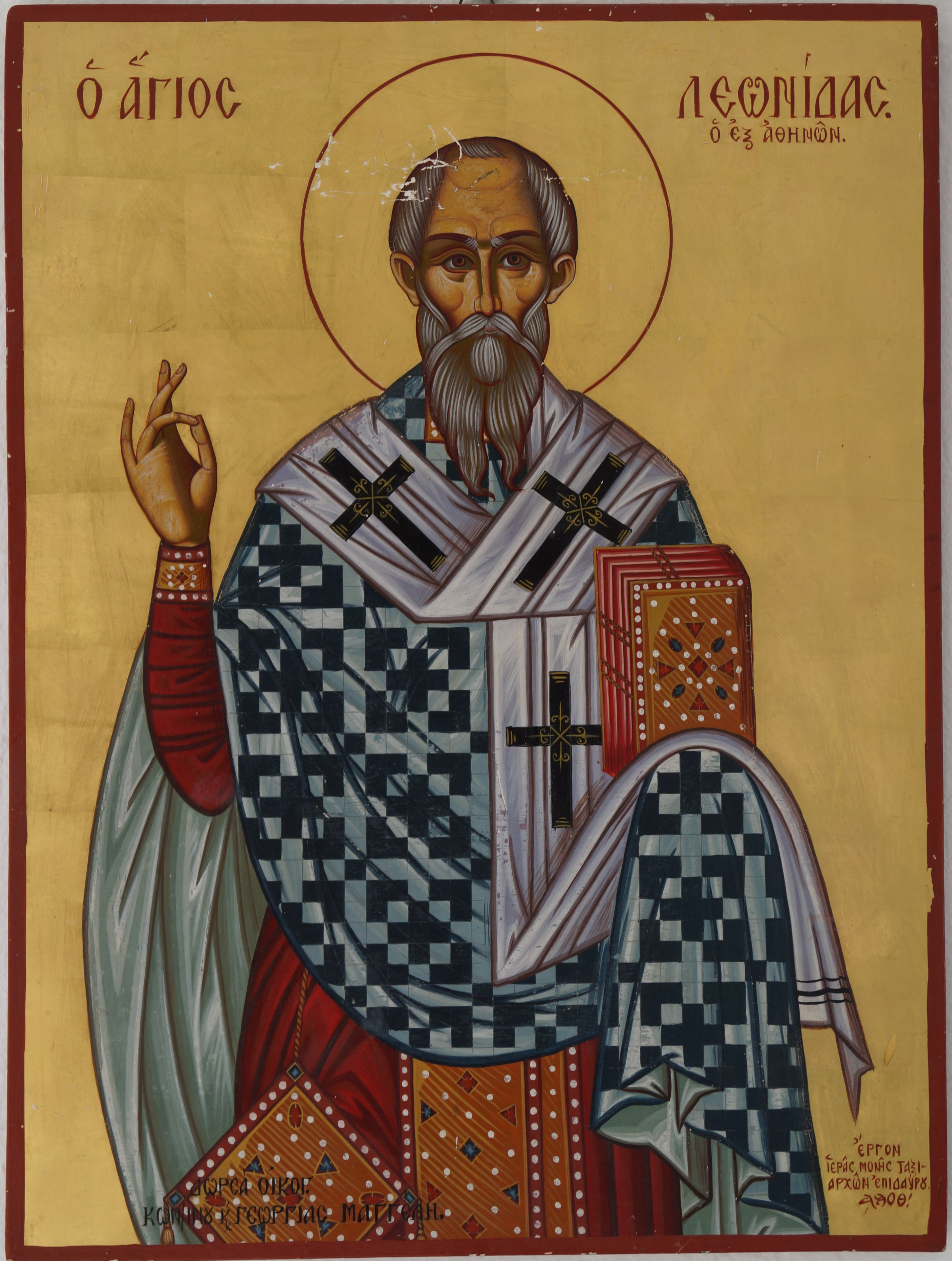 Dimaina, Argolida, Greece: Icon of Leonidas of Athens in the Saint Leonidas church of Dimaina.